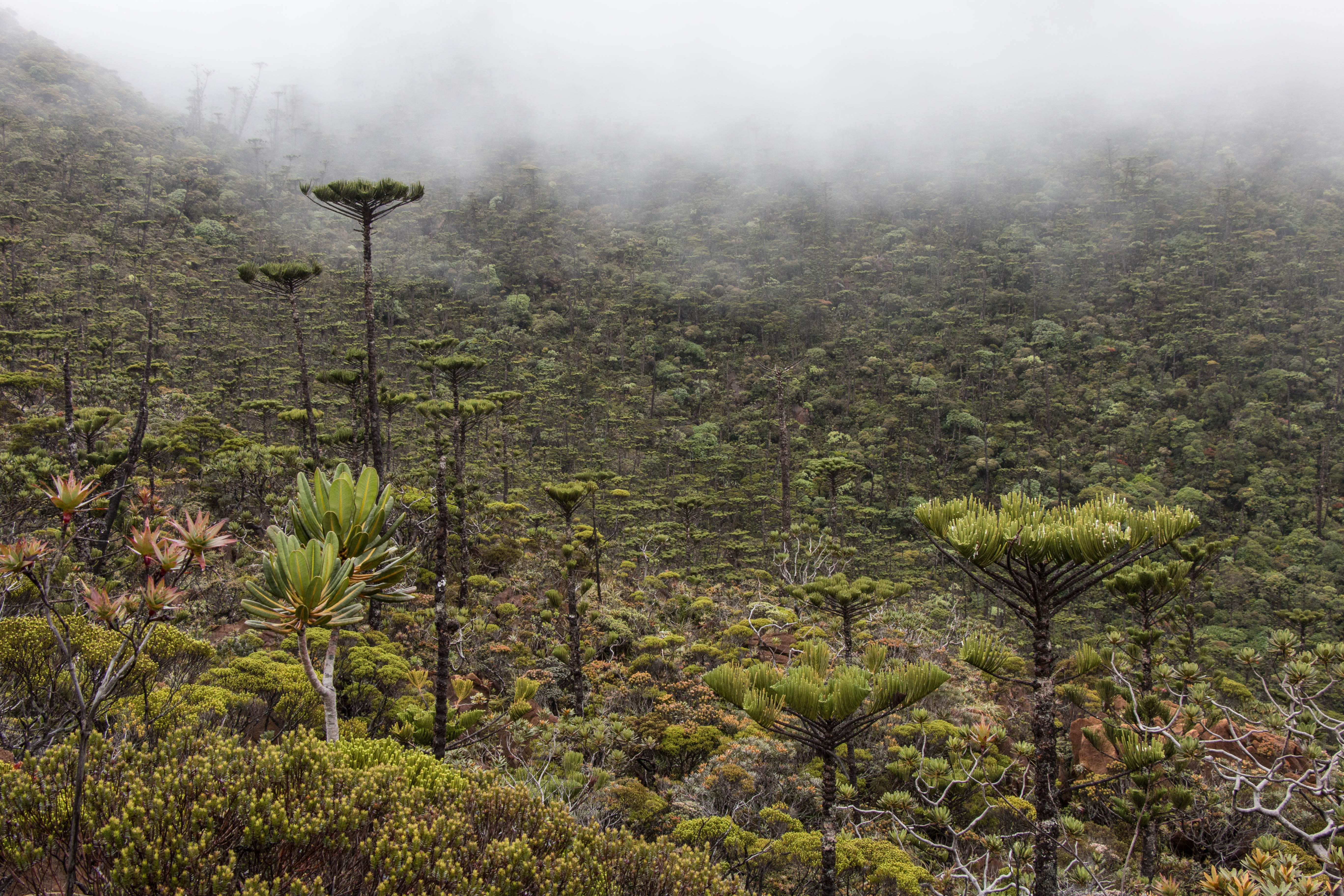 Population of Araucaria humboldtensis in Mont Hummboldt, December 2014